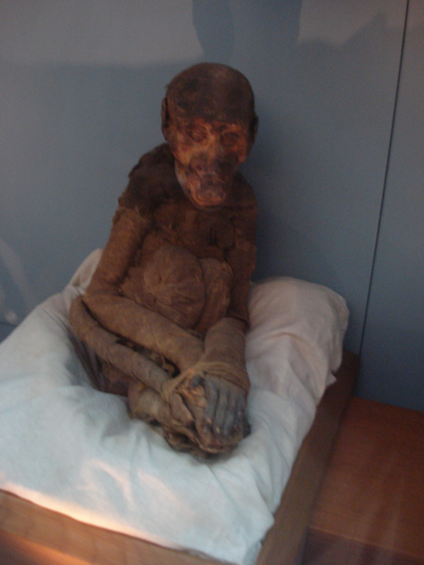 Mummified monkey at the Egyptian Museum, Cairo.